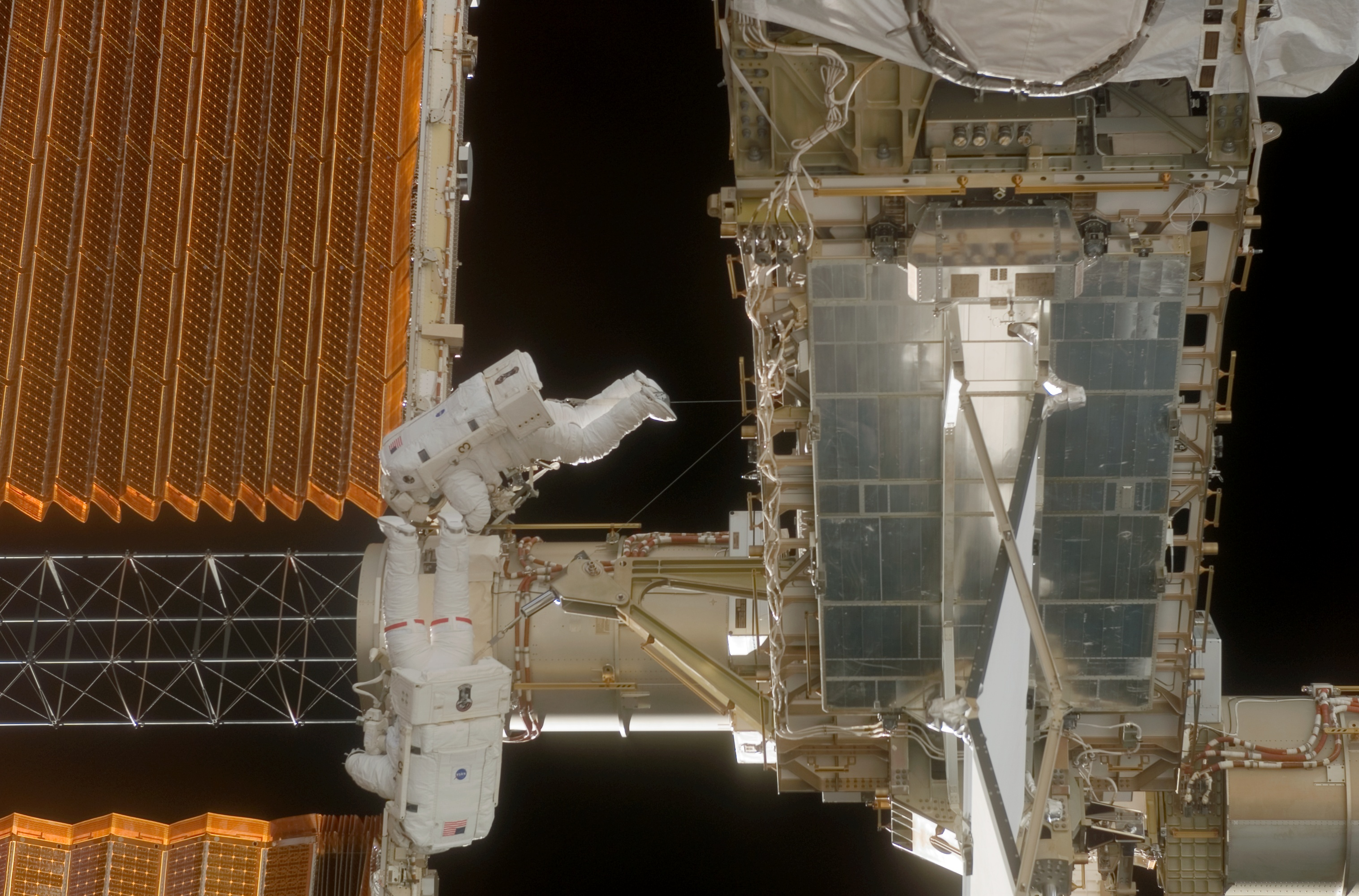 Astronauts Robert Curbeam (red stripes) and Sunita Williams work near the International Space Station's left P6 solar array wing during the third extravehicular activity (EVA) of the STS-116 mission.